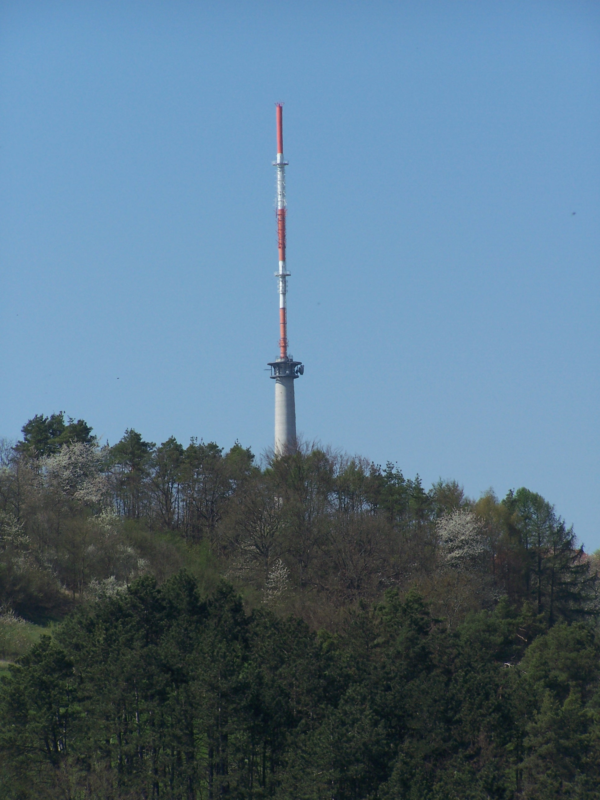 A photo of the Löffelstelzen Transmitter I made it myself today. Jumic 19:29, 14 April 2007 (UTC)